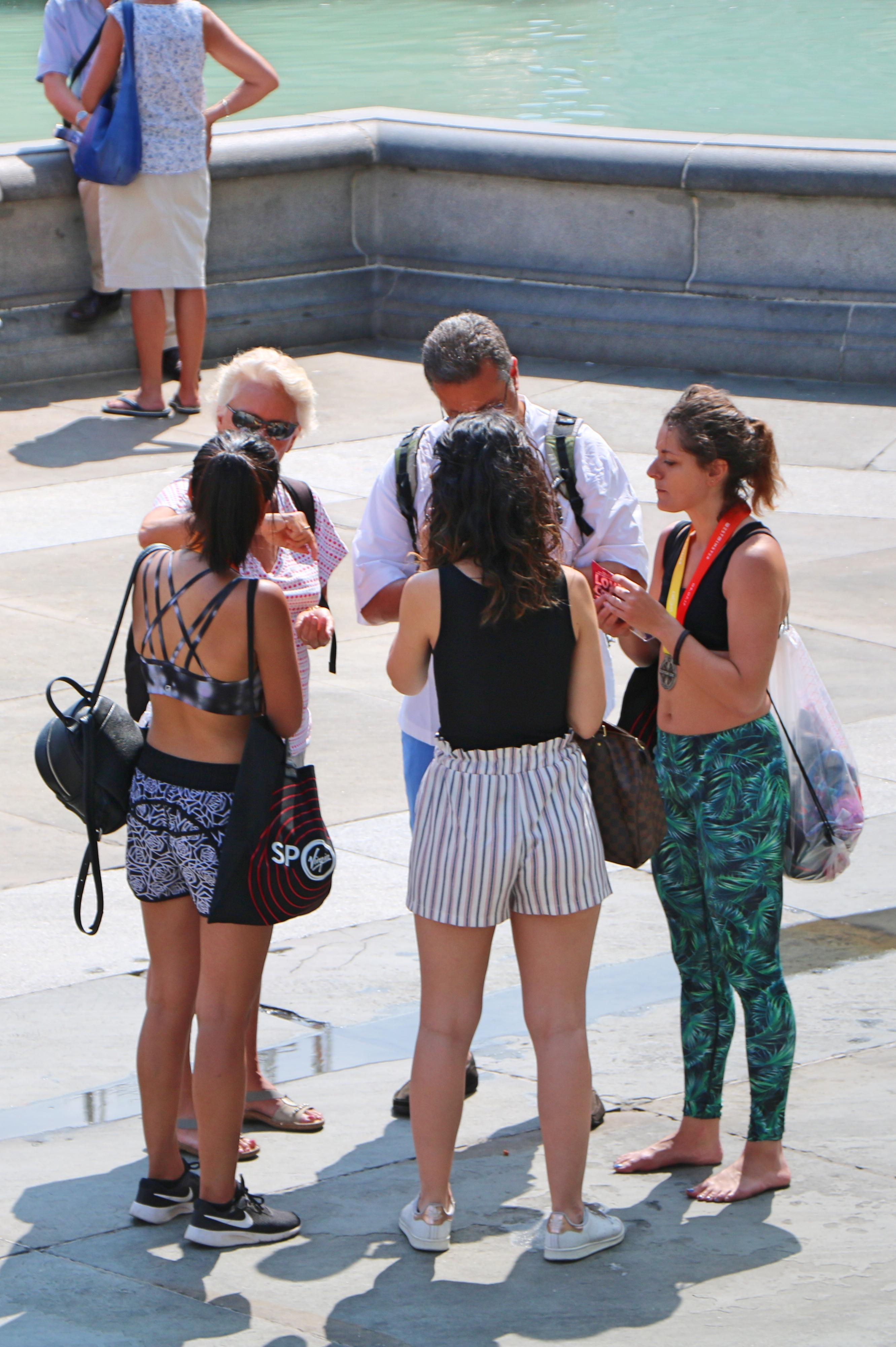 Trafalgar Square